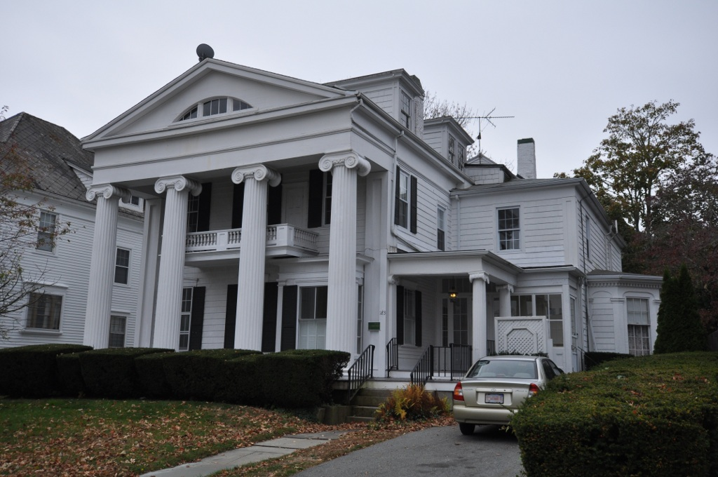 Home of former Massachusetts Governor John H. Clifford, part of the County Street Historic District, New Bedford, Massachusetts.